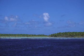 View of Nikumaroro (formerly Gardner) Island from boat, Phoenix Islands, Kiribati. Original field notes: Note lovely sandy beach (good for turtles), coconut palms (still used today by temporary copra cutters from the Gilbert Is.), and indigenous vegetation along the strand (an excellent buffer against high seas and winds, showing that the Gilbertese wisely knew not to plant every square inch of land in coconut palms).